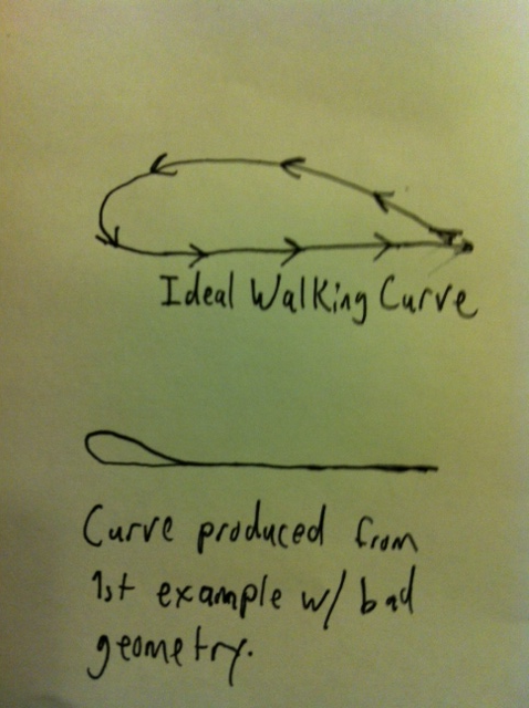 A drawing of the ideal walking curve vs. the curve produced by my first cardboard model.